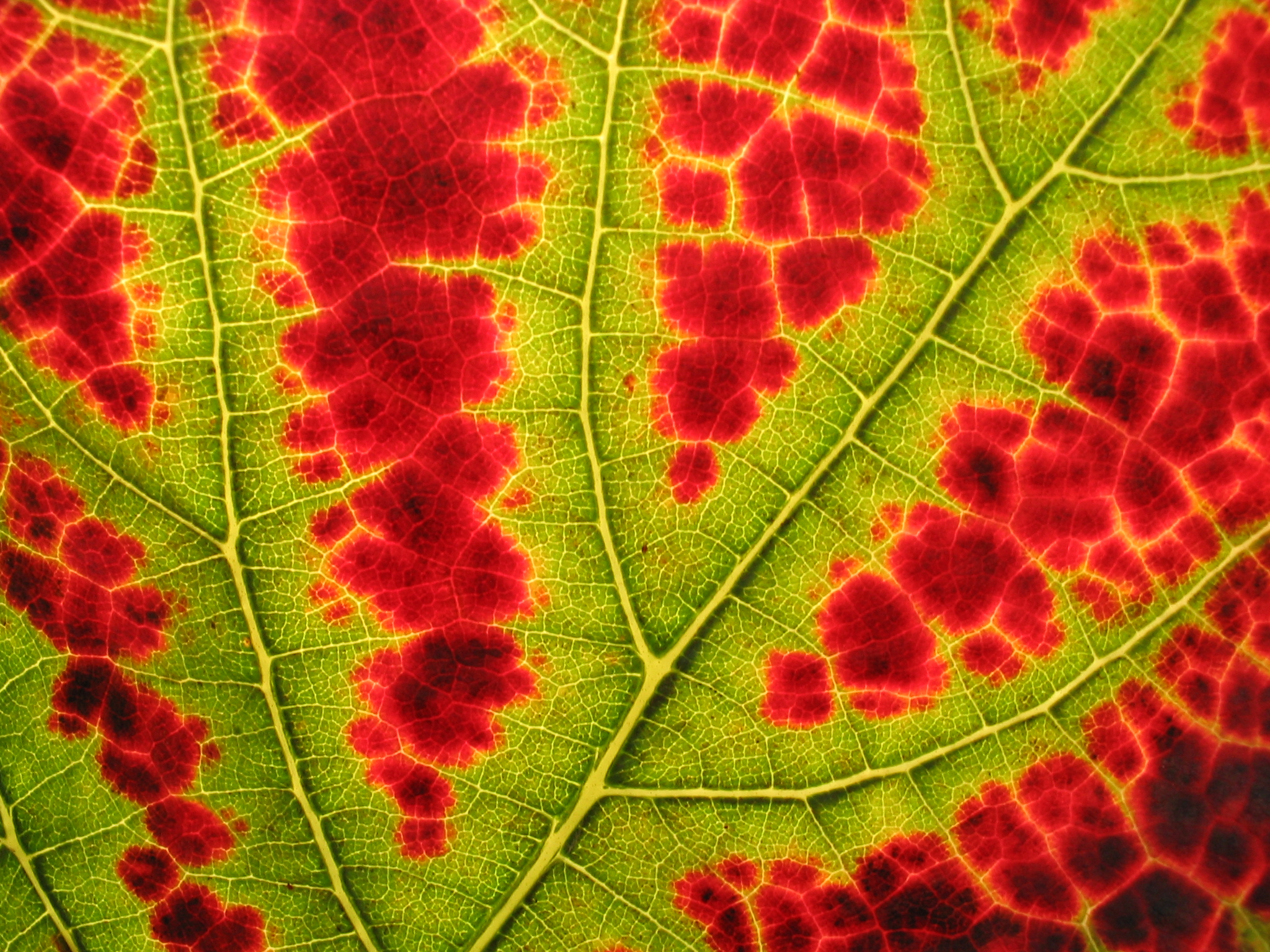 Autumn - closup view of a Vine leaf in back light.Kaiserstuhl - Herbst - Rebblatt im Gegenlicht